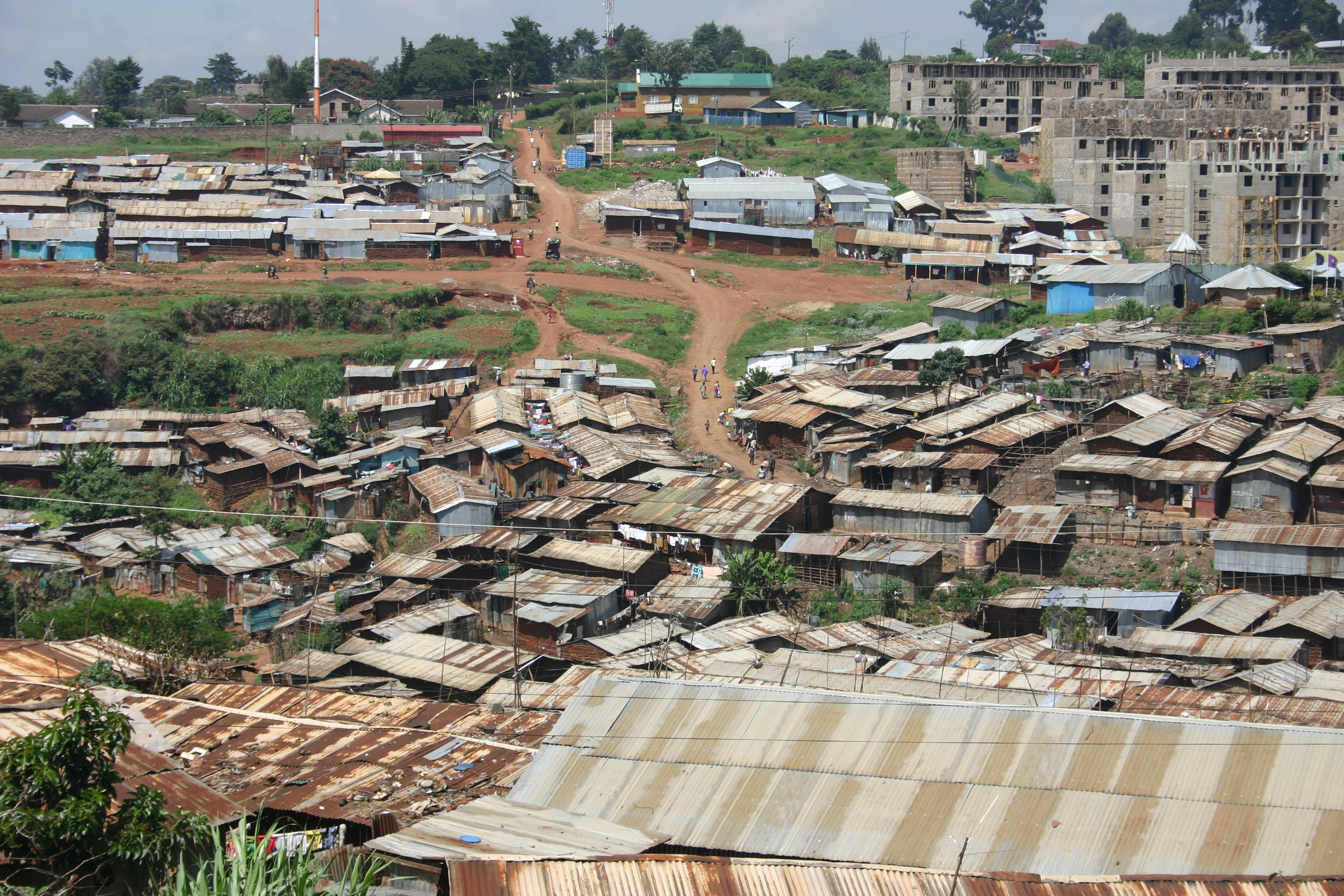 Kibera: rooftops and streets.